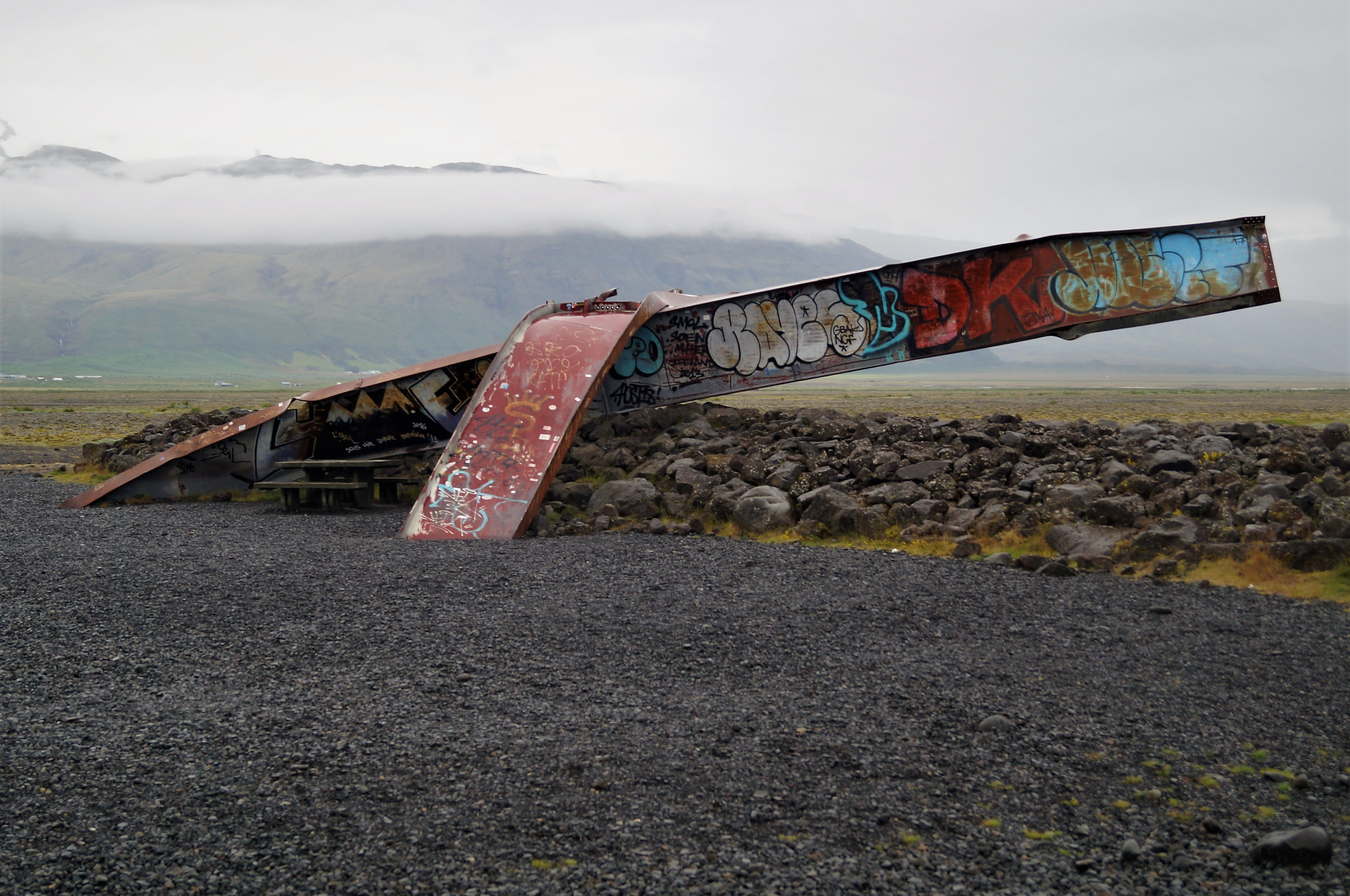 Memorial of the Gjálp 1996 eruption on Skeiðarársandur, July 2019